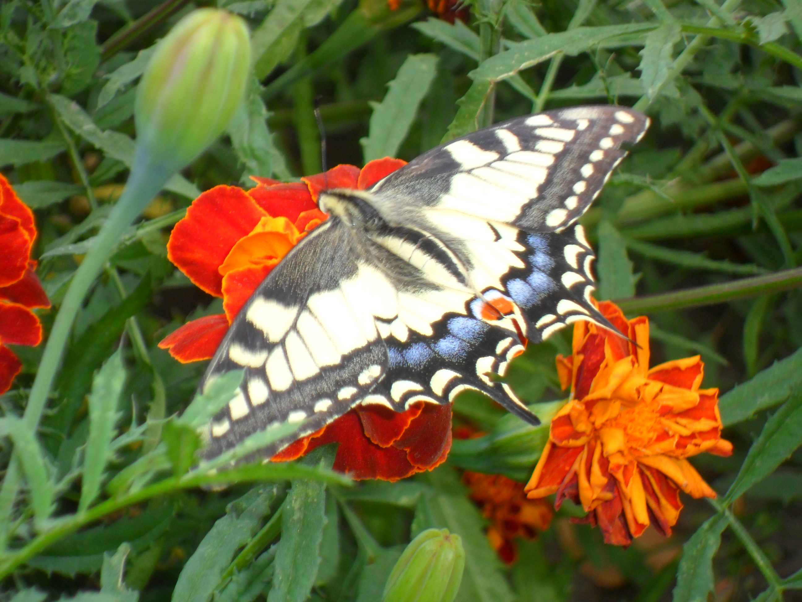 Papilio machaon, Ukraine – Zinkiv Raion